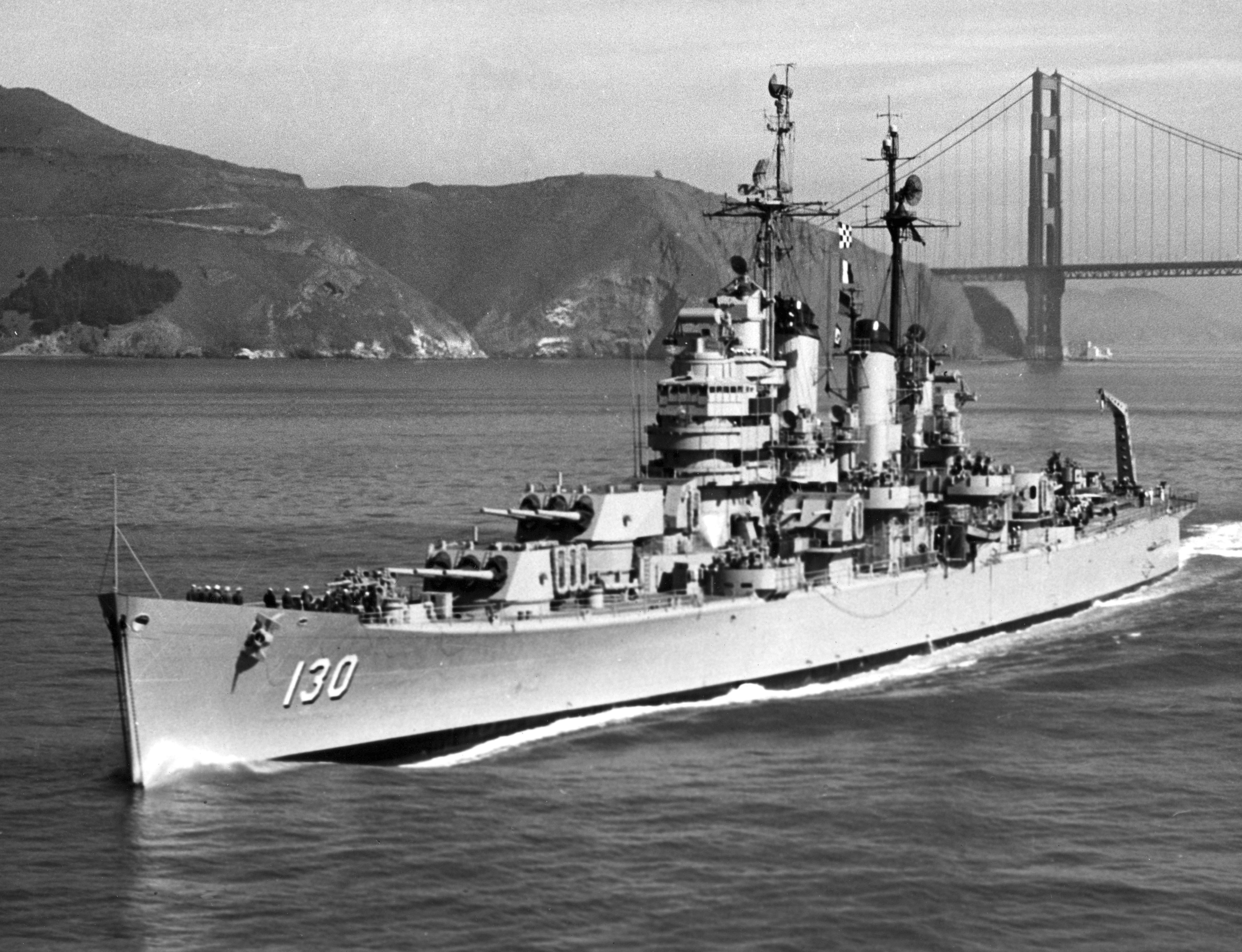 The U.S. Navy heavy cruiser USS Bremerton (CA-130) passing under the Golden Gate Bridge, California (USA), in April 1955.